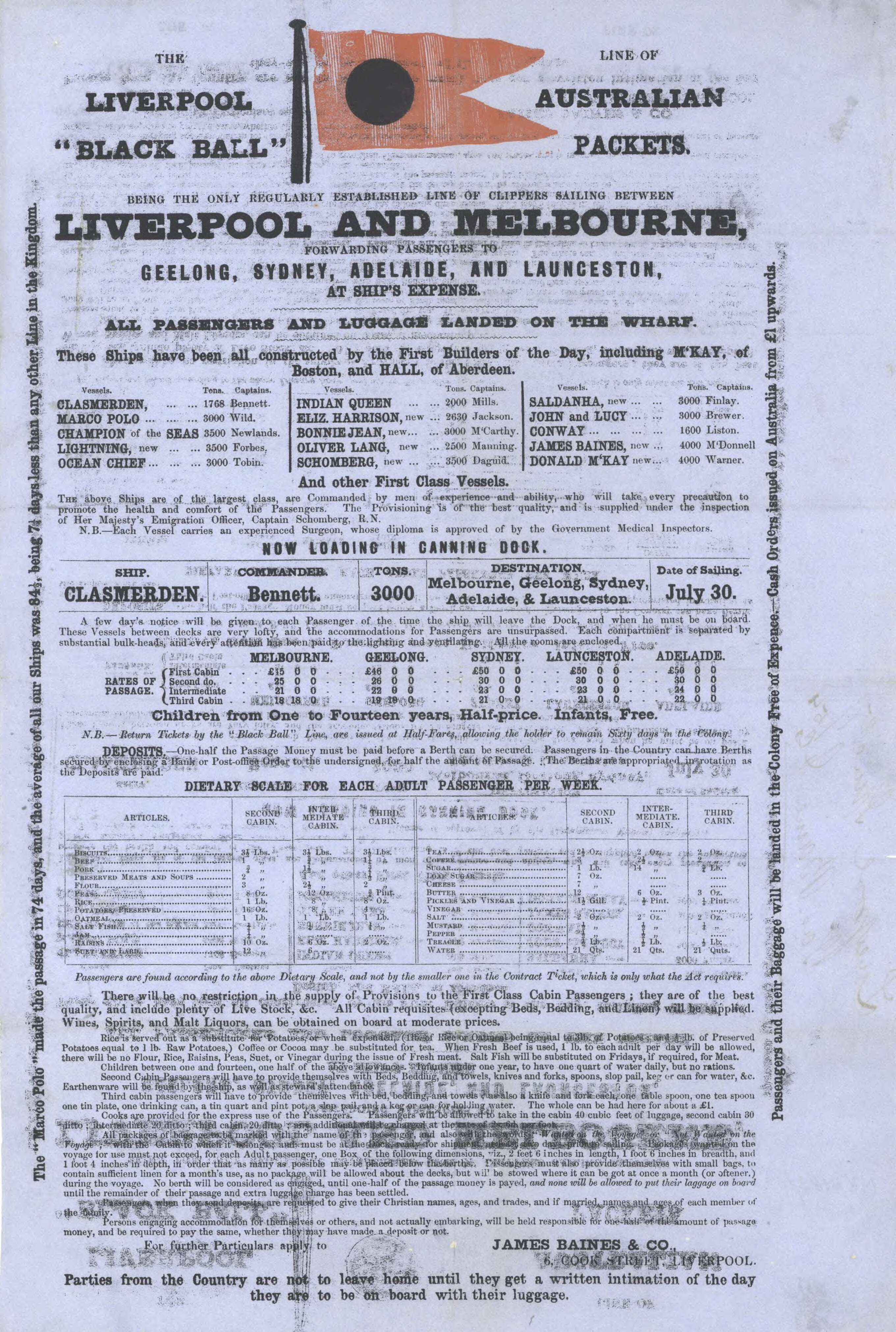 The Liverpool Black Ball Line of Australian packets : being the only regularly established line of clippers sailing between Liverpool and Melbourne, forwarding passengers to Geelong, Sydney, Adelaide and Launceston, at ship's expense.